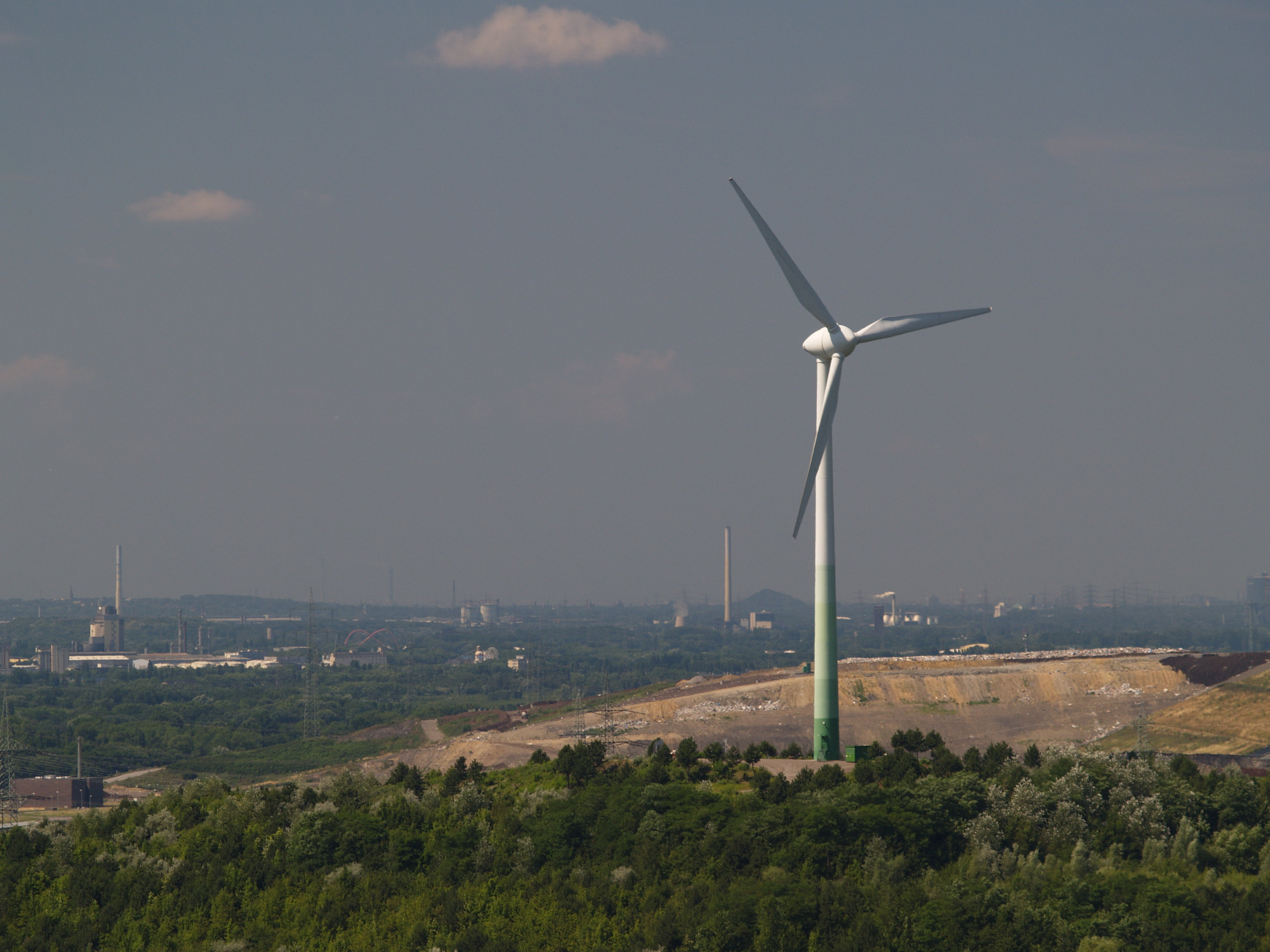 Halde Hoppenbruch view from Halde Hoheward